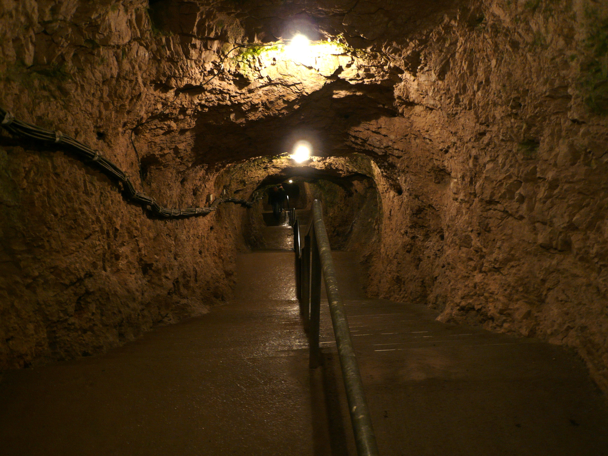 Entry to cavern Nebelhöhle